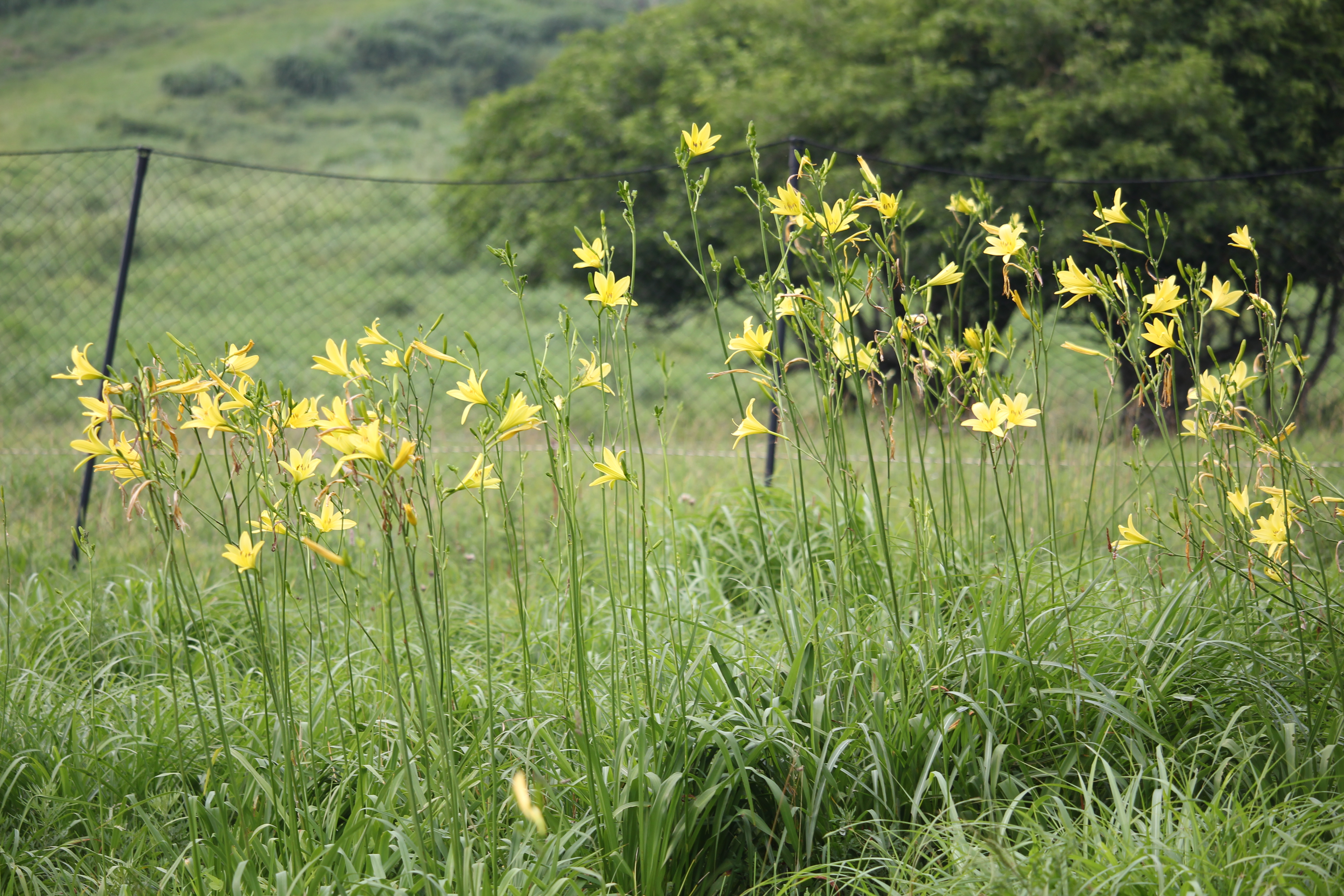 Hemerocallis vespertina in Mount Ibuki, Maibara, Shiga prefecture, Japan.